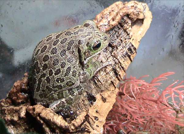 Hyla gratiosa (barking treefrog).